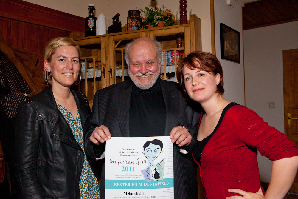 Filmladen's Lisi Klinger (left) and Susanne Auzinger (right) receive the film critics' award Der Papierene Gustl from founder Herbert Wilfinger for the best international film 2011, Melancholia.